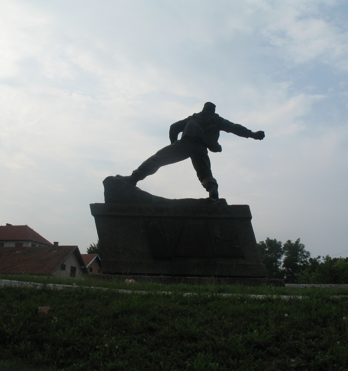 Monument to Yugoslav Partisans,representing common man throwing bomb in Ljig,Serbia.